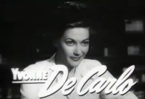 Cropped screenshot of Yvonne De Carlo from the trailer for the film Criss Cross (1949).